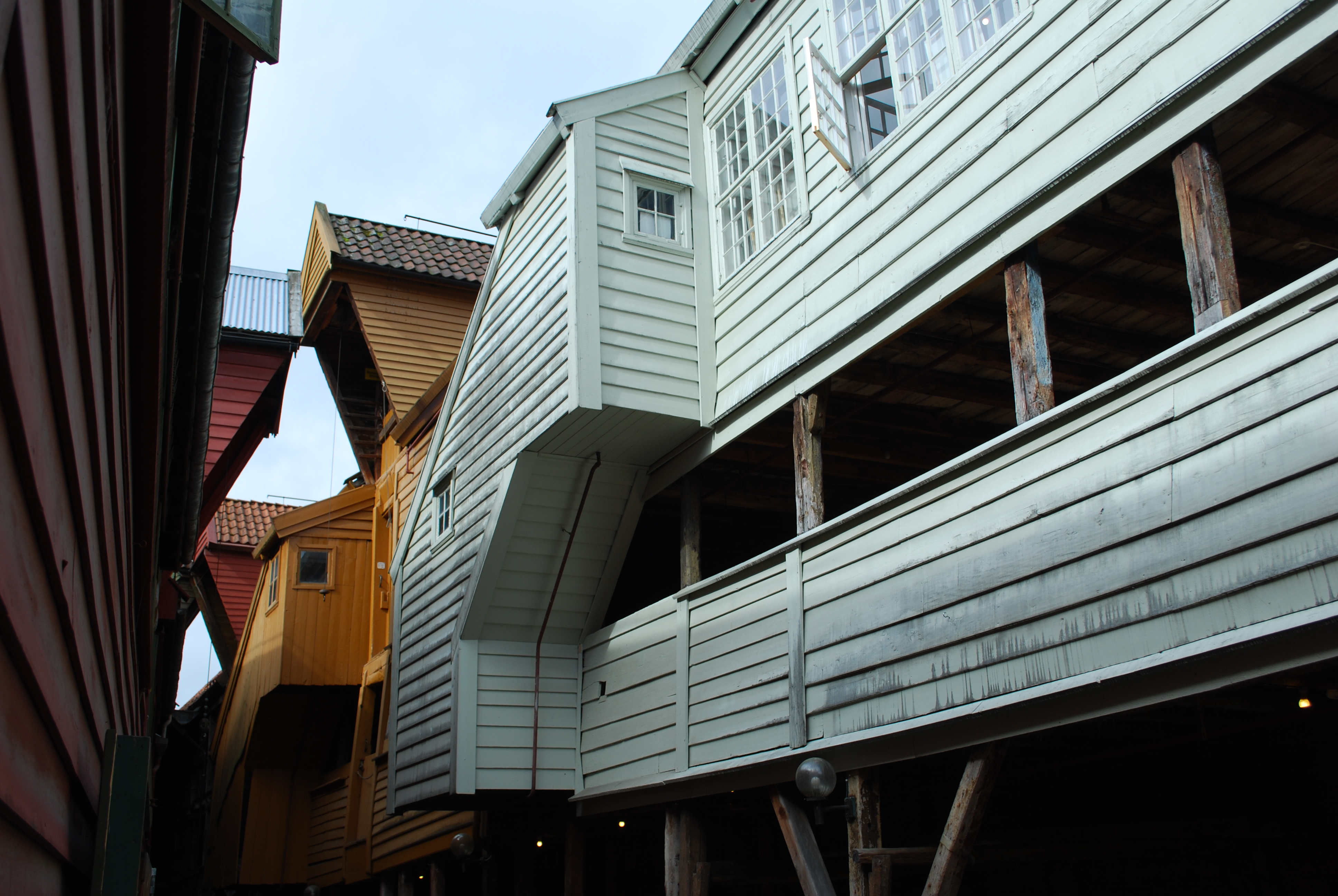 Building on Bellgården street inside Bergen's Bryggen